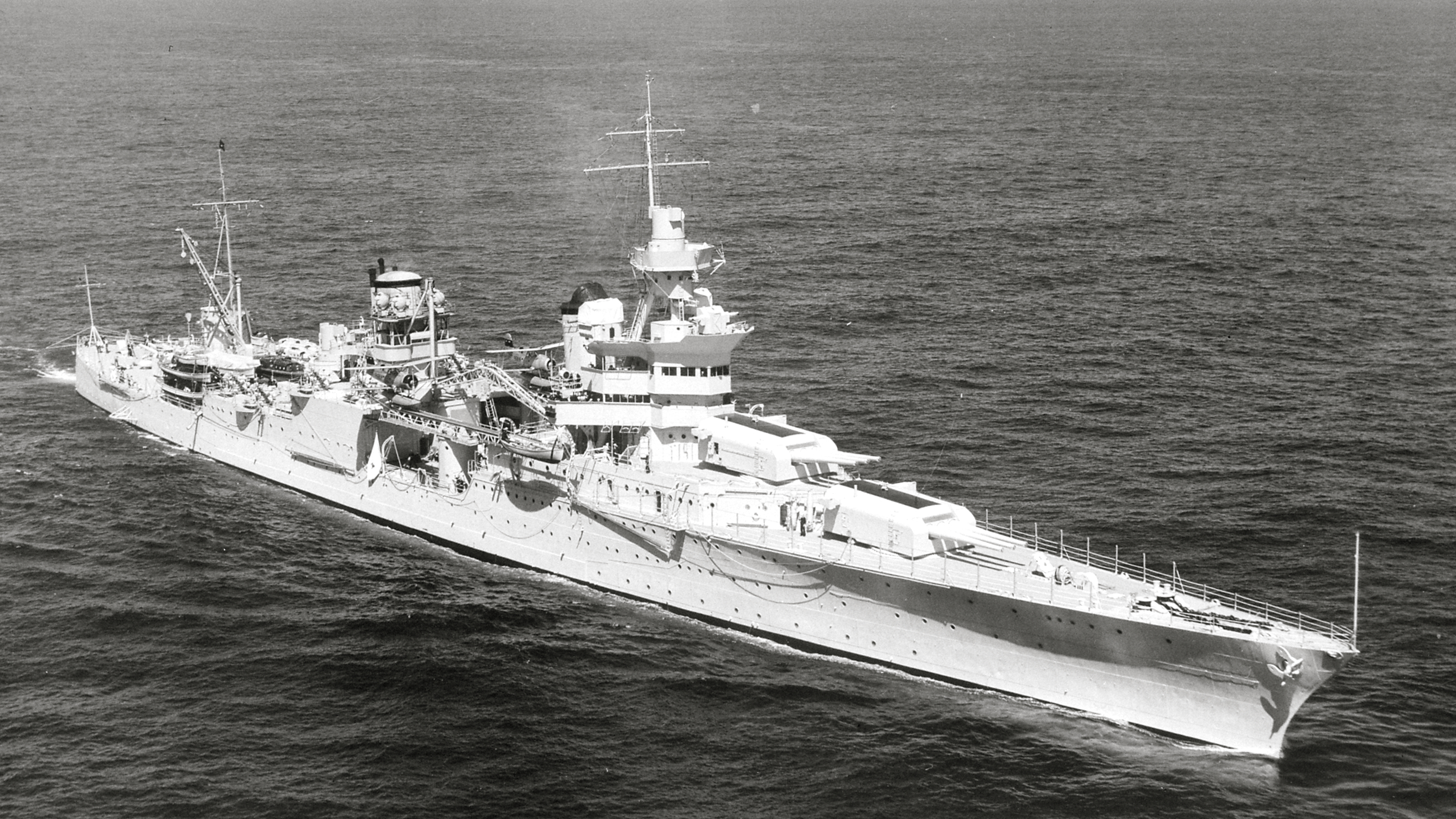 The U.S. Navy heavy cruiser USS Indianapolis (CA-35) underway at sea on 27 September 1939.